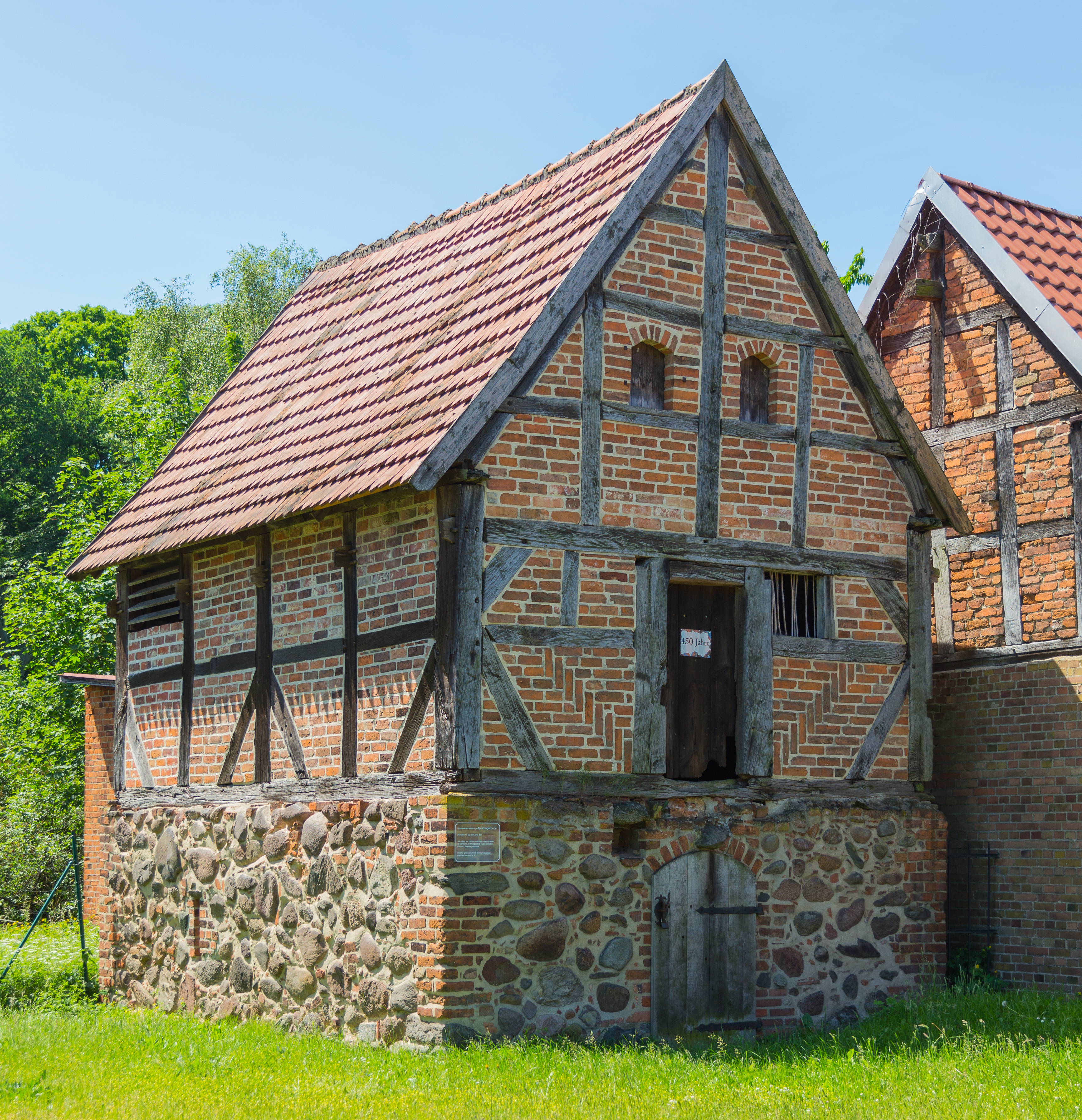 Former prison building (Hundeloch) and small granary in Kloster Neuendorf, district of Gardelegen, Altmarkkreis Salzwedel, Saxony-Anhalt, Germany. The building is a listed cultural heritage monument.